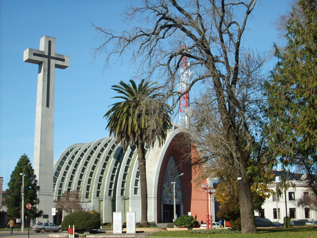 Catedral of Chillán